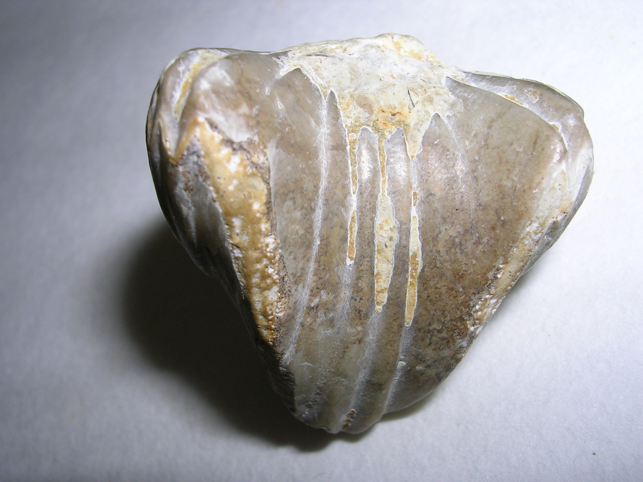 Rhynchonella sp. fossil (Jurassic) founded in Algora (Guadalajara), in a laboratory of practices of the Faculty of Sciences of the University of Corunna.